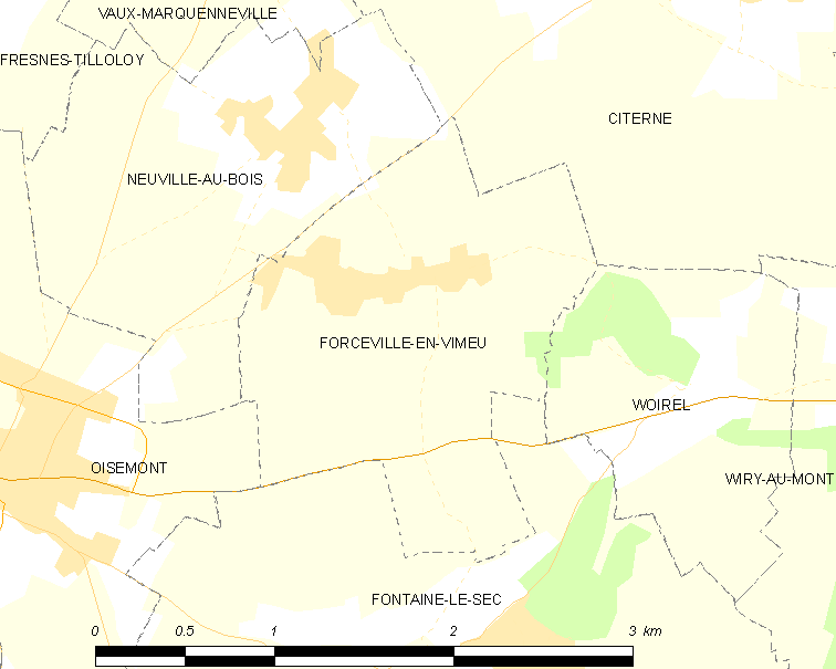 Map of French municipality Forceville-en-Vimeu